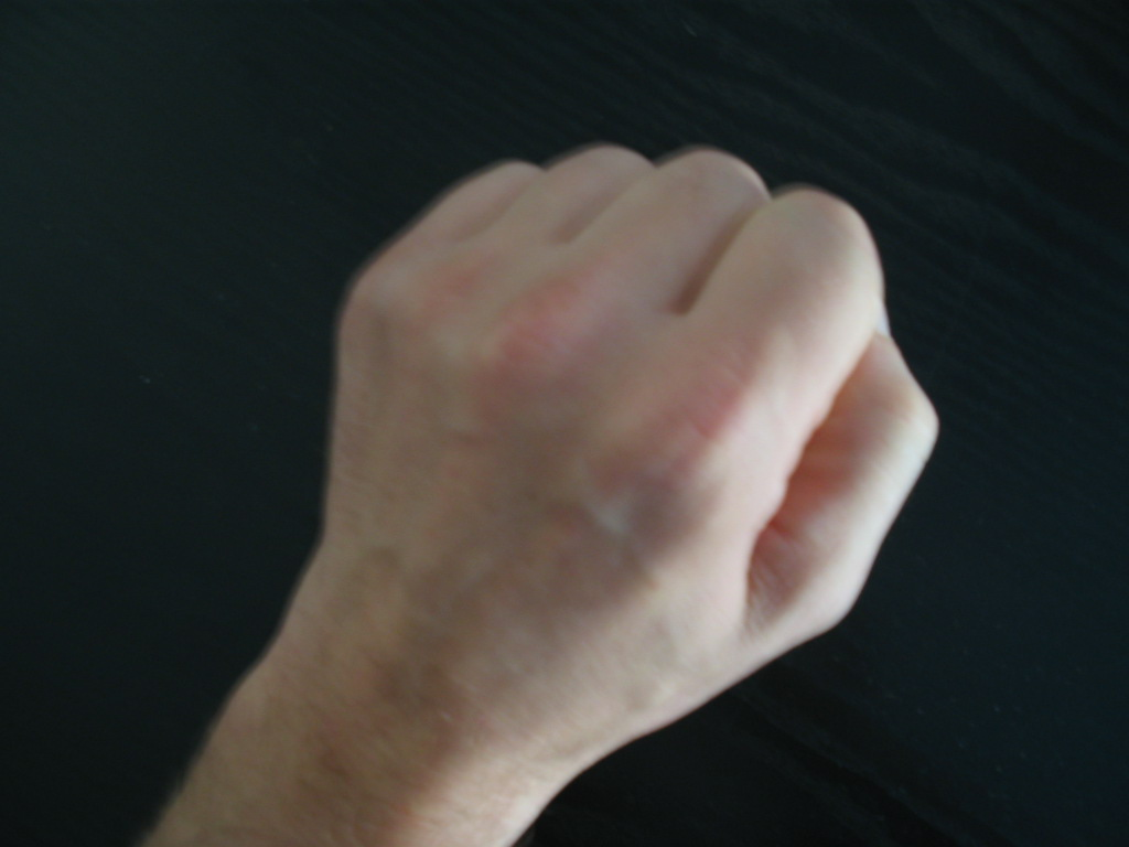 A fist.